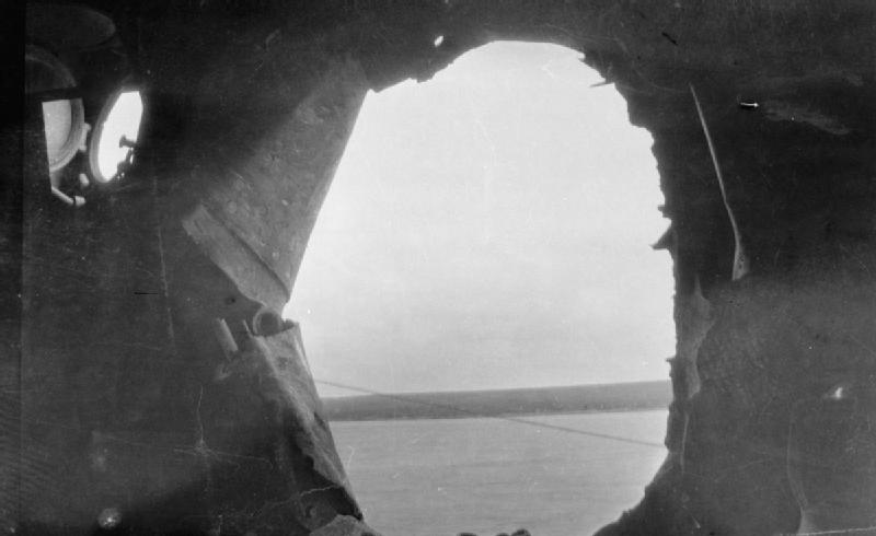 IWM caption : A photograph taken from inside the hull of the light cruiser HMS Castor after the Battle of Jutland showing a large shell hole. Her crew suffered ten casualties during the battle. Castor was the flagship of the 11th Destroyer Flotilla (Kempenfelt, Magic, Mandate, Manners, Marne, Martial, Michael, Milbrook, Minion, Mons Moon, Morning Star, Mounsey, Mystic and Ossory)